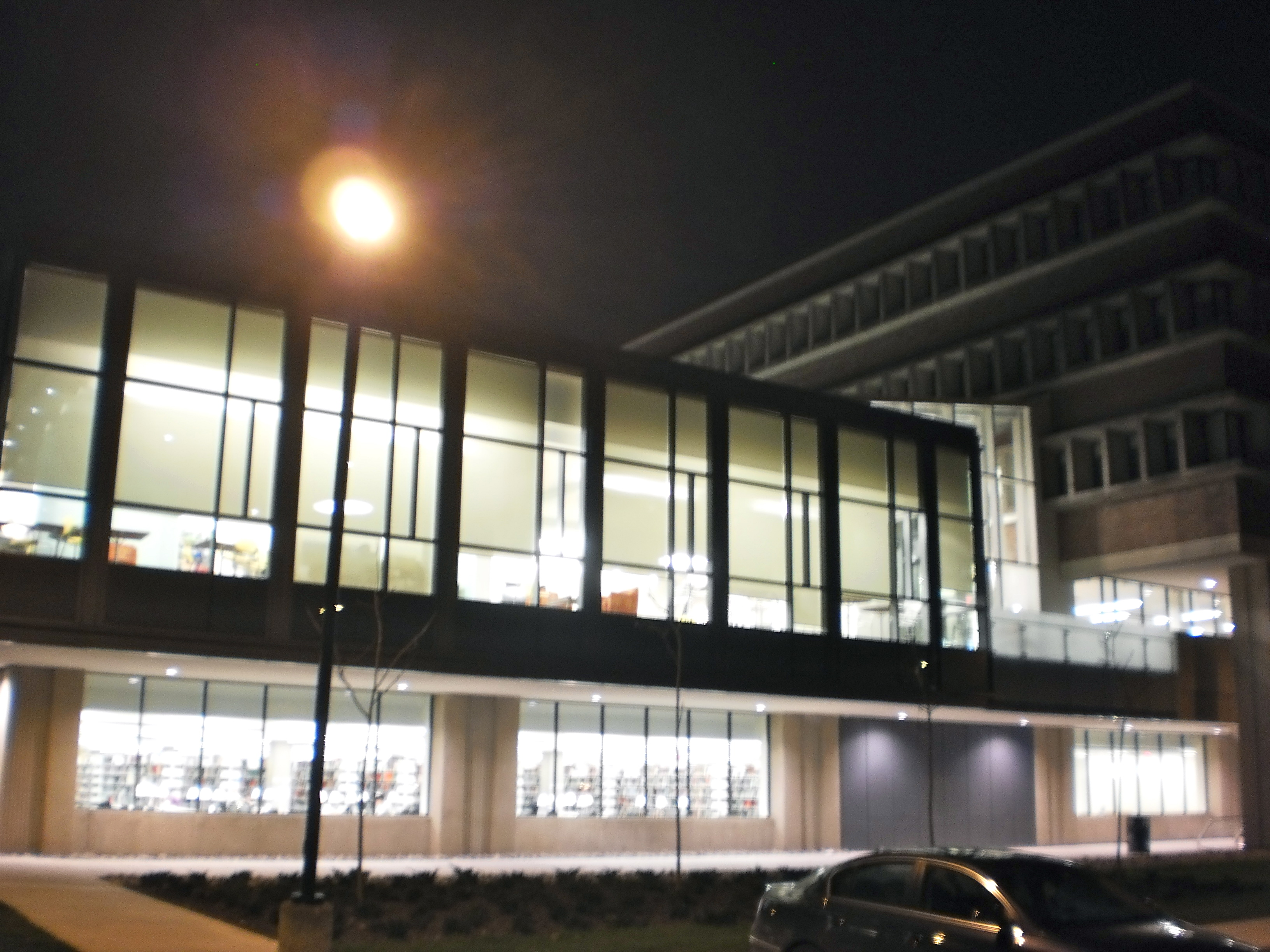 Osgoode Hall Law School at Night